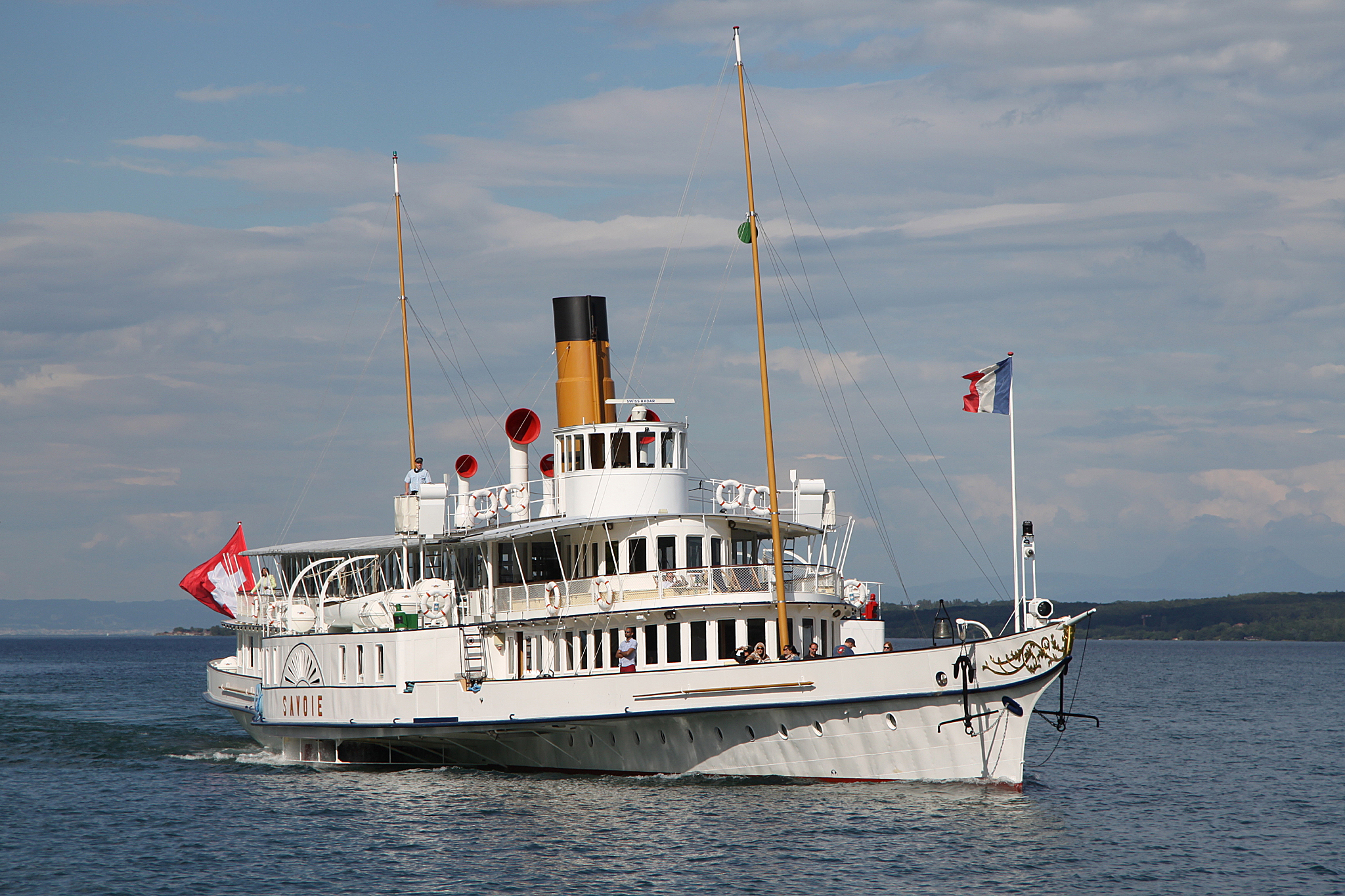 SS "Savoie" approaching Coppet.